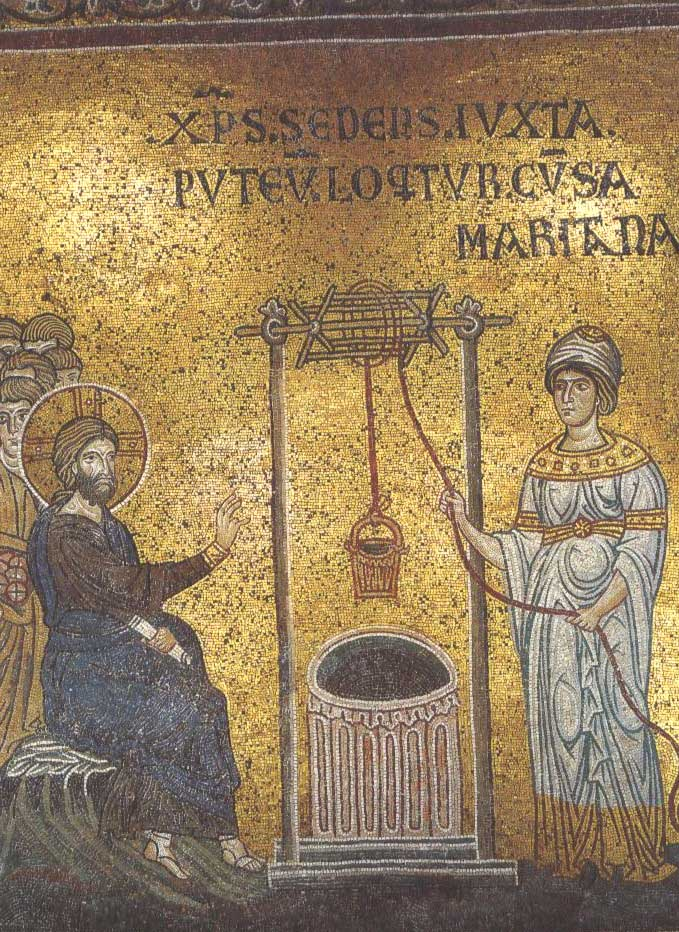 Christ anв Samaritan woman (Monreale)